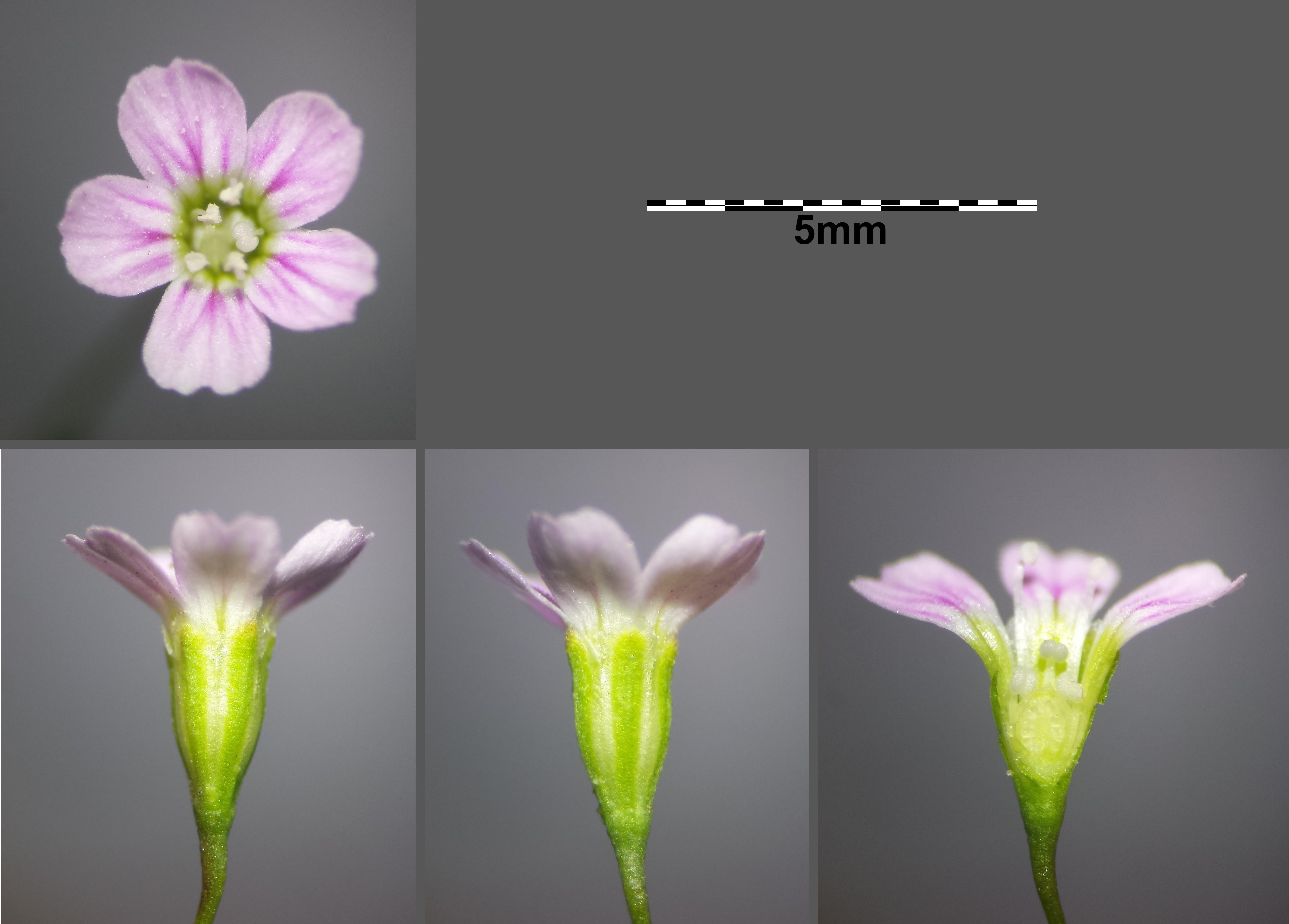 Flower Taxonym: Gypsophila muralis ss Fischer et al. EfÖLS 2008 ISBN 978-3-85474-187-9 Location: Žárský rybník, Jihočeský kraj, Czech Republic - ca. 500 m a.s.l. Habitat: ground of a pond